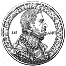 Woodcut image of medal by Steven van Herwijk. Bust of Michel de Castelnau or Castlenau, Sieur de la Mauvissière, Ambassdor of France to Elizabeth I of England facing right, head bare, doublet richly ornamented, mantle, ruff small, several circles of loose chain hang round his neck. Legend Michel . De . Castelnav. Seig . De . Mawissieke. In the field, In Angl. On truncation, 1565. Ste. H. Stops, lozenges. From Hawkins, Edward, Medallic illustrations of the history of Great Britain and Ireland to the death of George II. Volume I. Edited by Augustus W. Franks & Herbert Appold Grueber The British Museum, 1885.